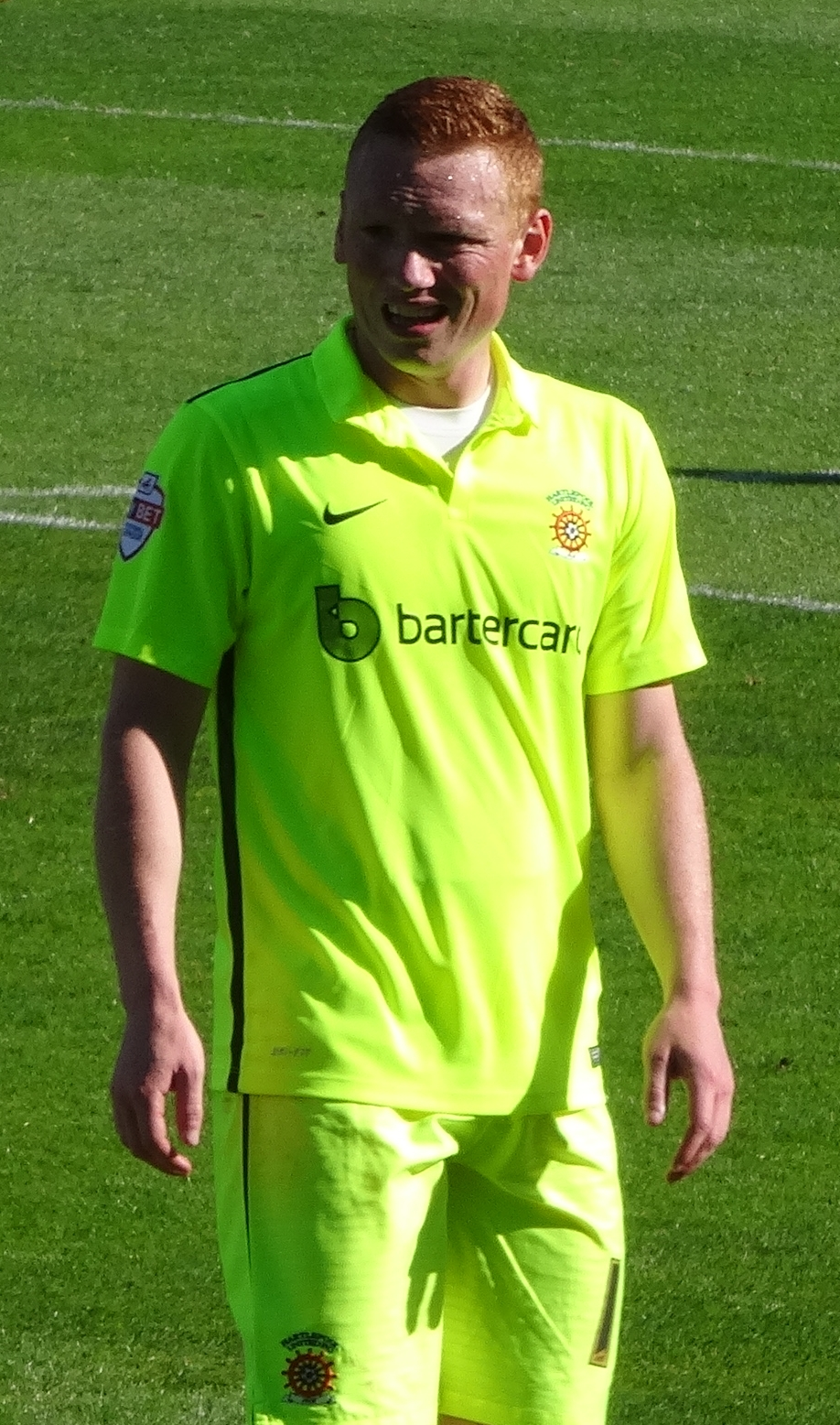 Michael Woods playing for Hartlepool United against York City at Bootham Crescent, York on 15 August 2015